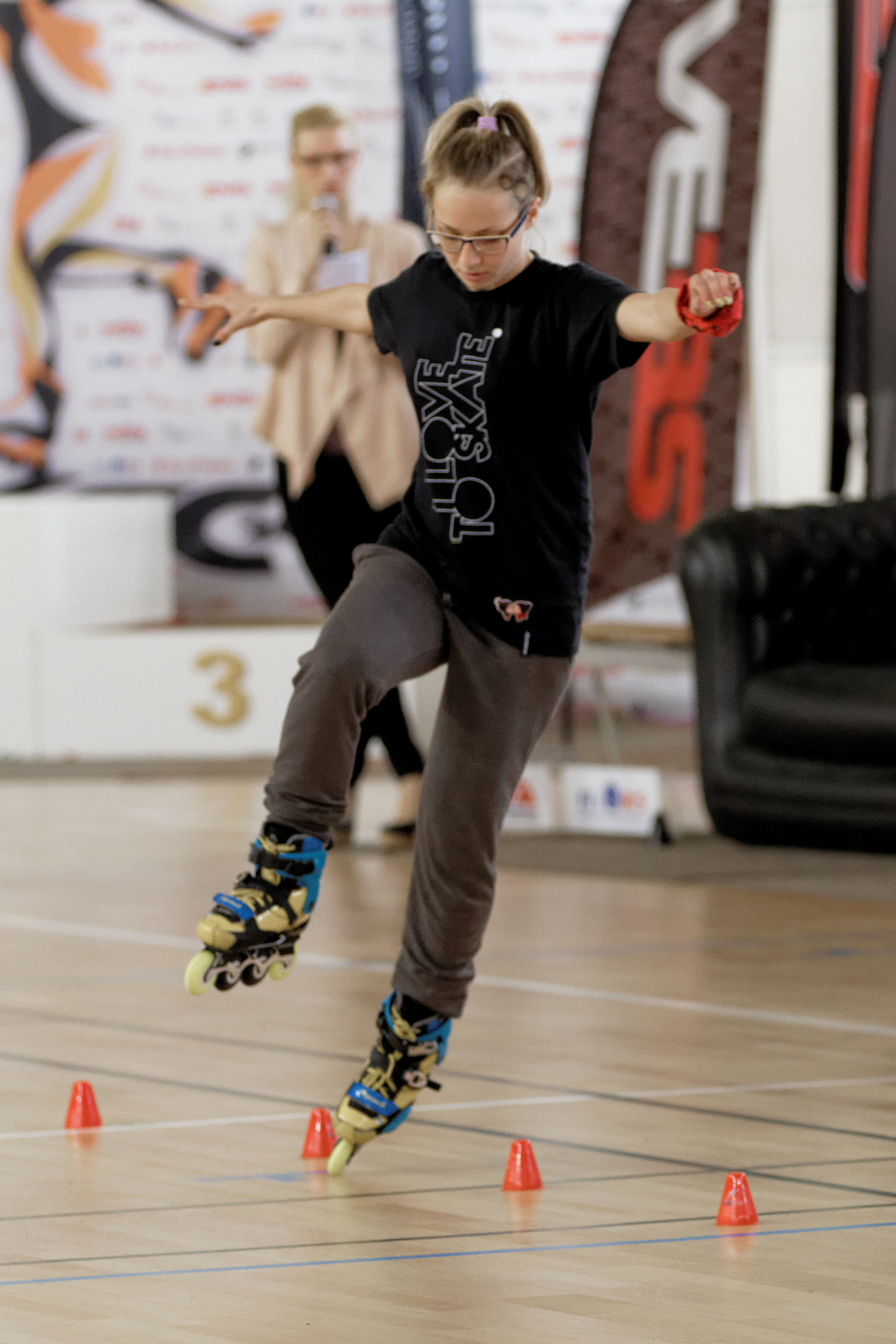 2014 World freestyle skating championships